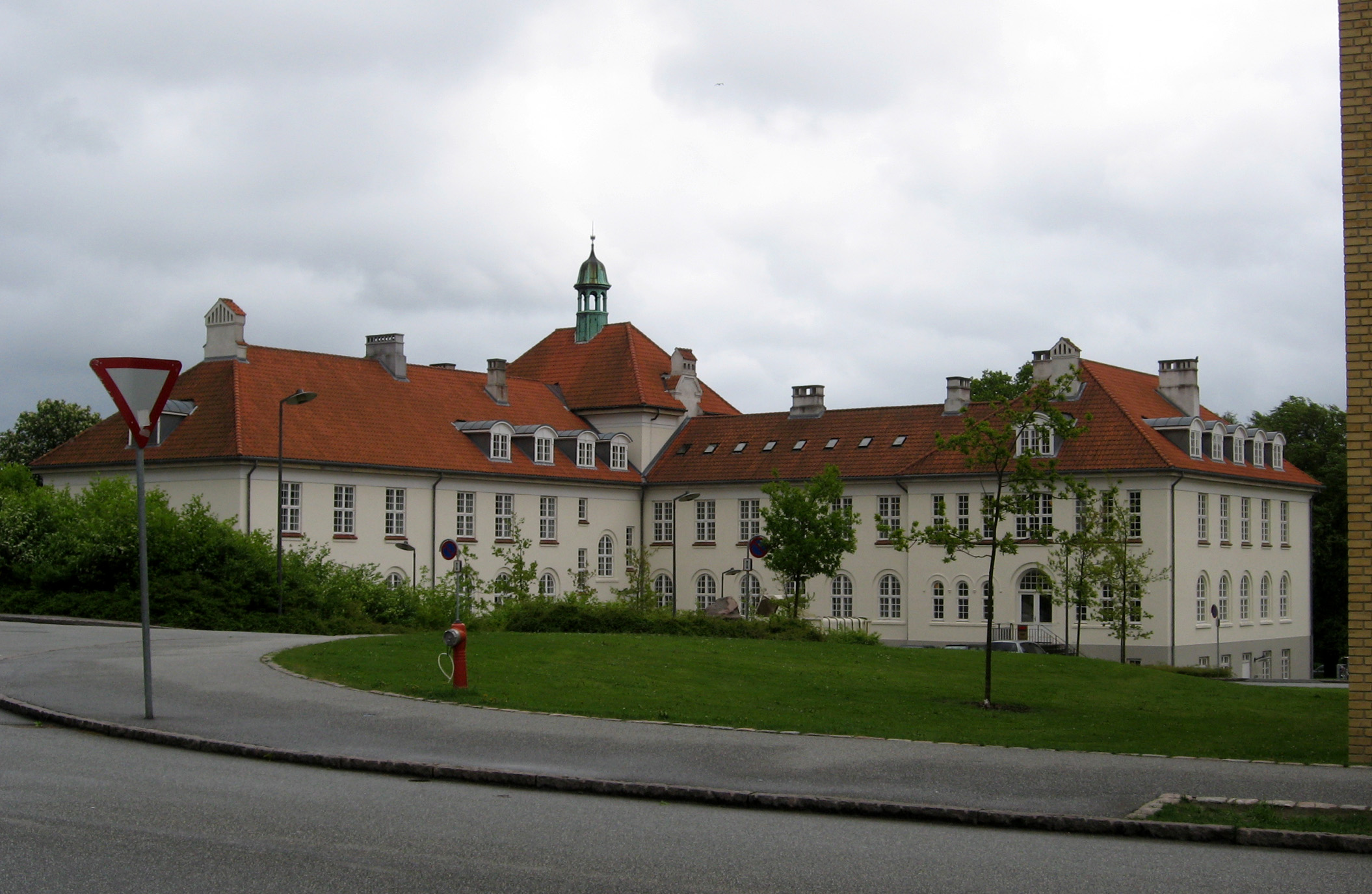 Fødselsanstalten in Århus, Denmark. Viewed from the campus of Aarhus Universitet.